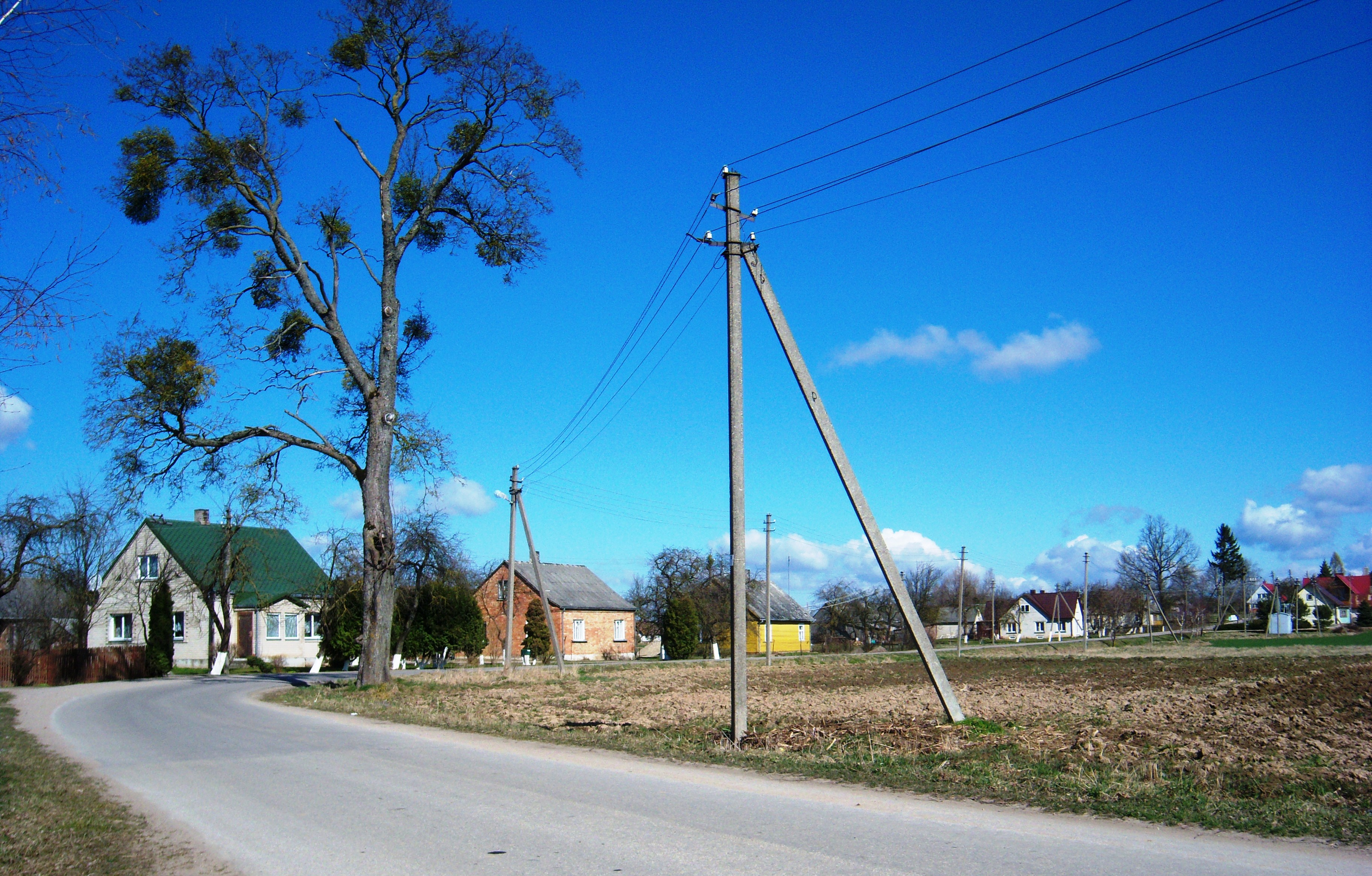 Ašminta, Prienai district, Lithuania